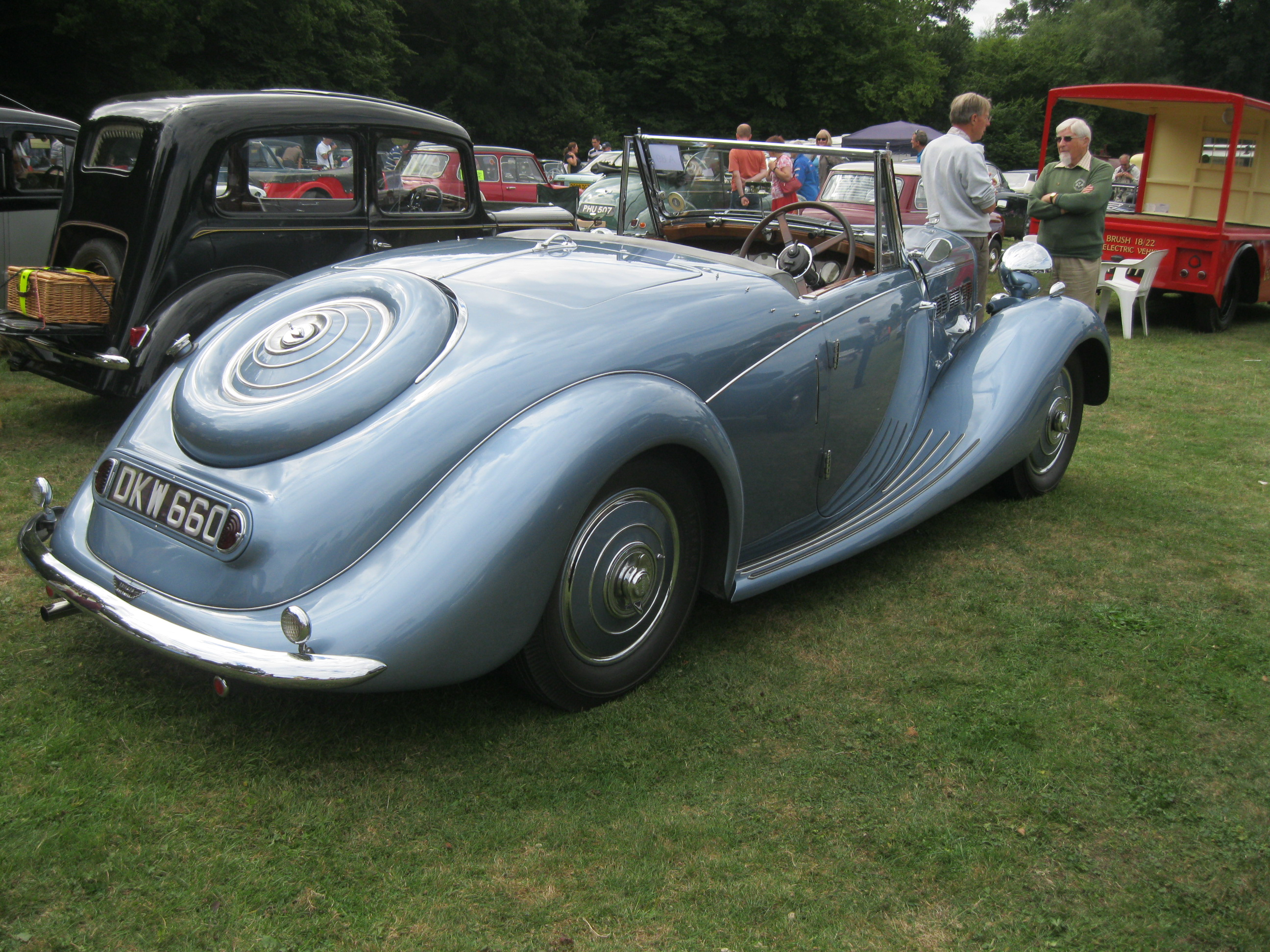 Triumph Dolomite Roadster Coupé (DVLA) first registered 26 June 1940, 1767cc Spotted at the Bluebell Railway Historic Transport Weekend on 10.08.13